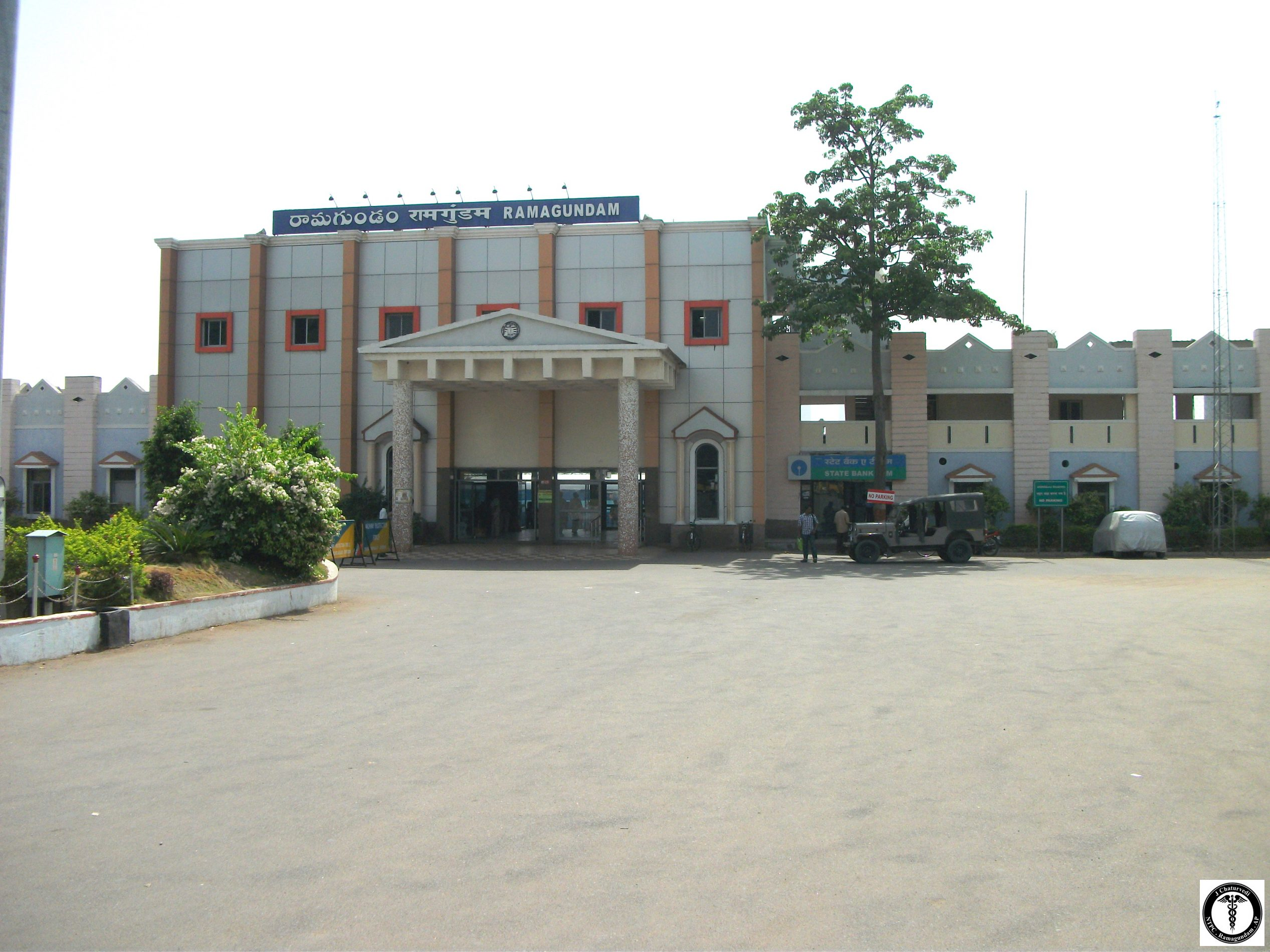 Ramagundam Rly Station